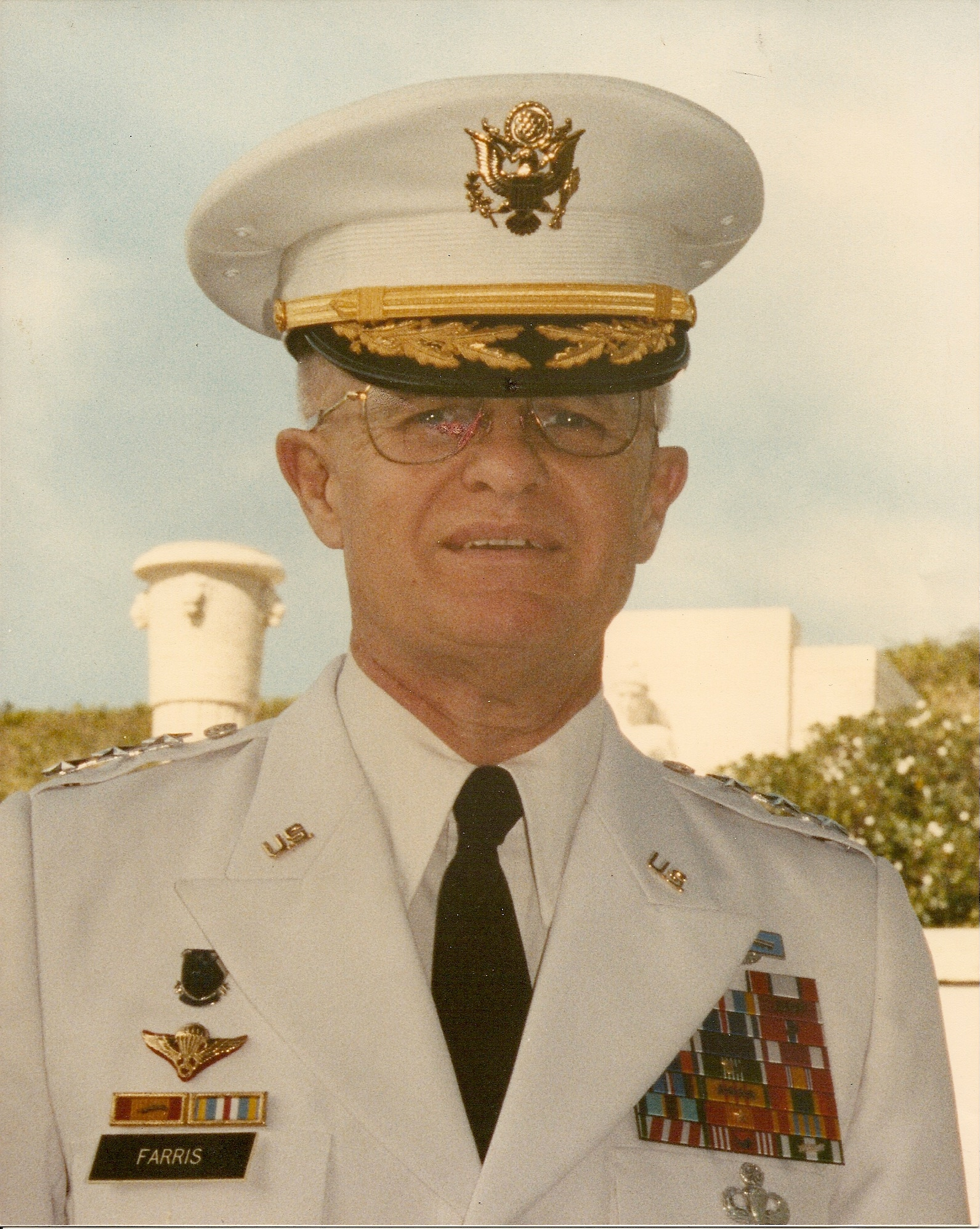 Lieutenant General U.S. Army ret.